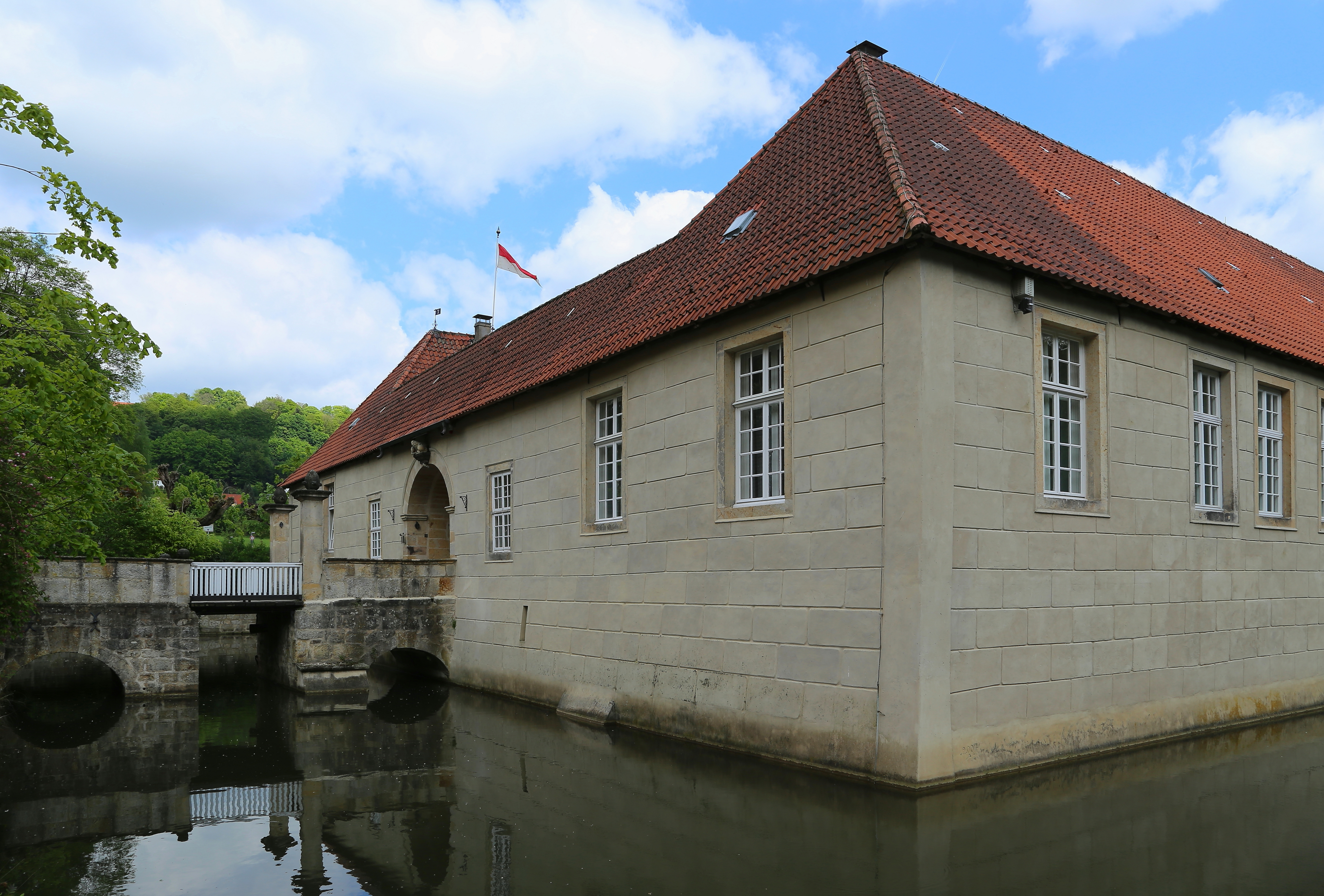 The Marck House water castle (Wasserschloss Haus Marck) near Tecklenburg, Kreis Steinfurt, North Rhine-Westphalia, Germany.